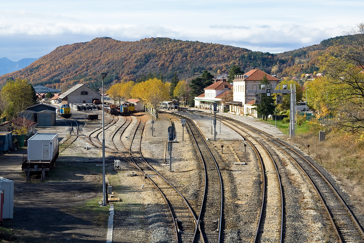 Veynes french railway station